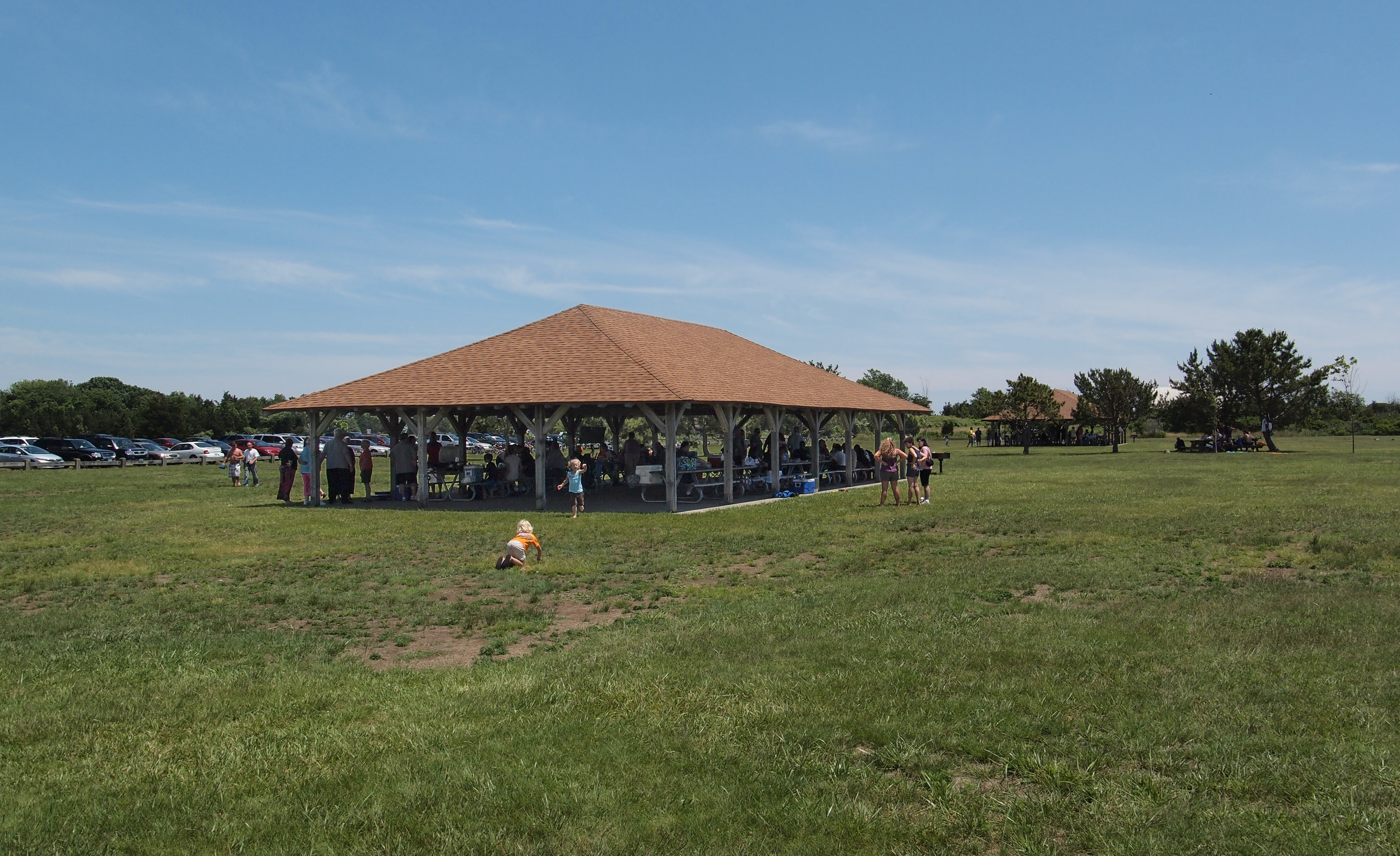 Pavilion at Hammonasset Beach State Park, Connecticut, USA.